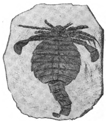 The Eurypterida of New York. Volume 1. New York State Museum Memoir 14, figure 52